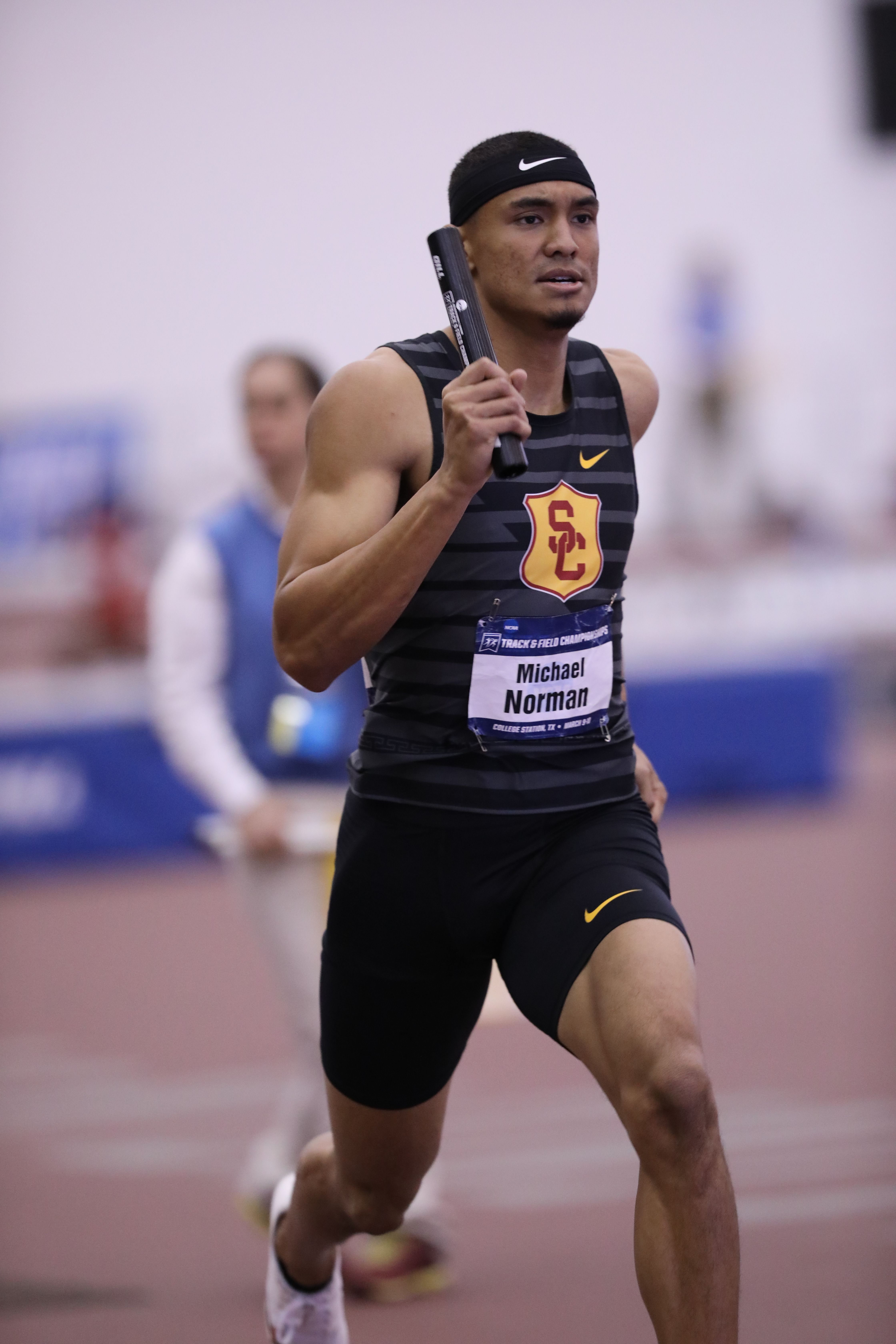 2018 NCAA Division I Indoor Track and Field Championships